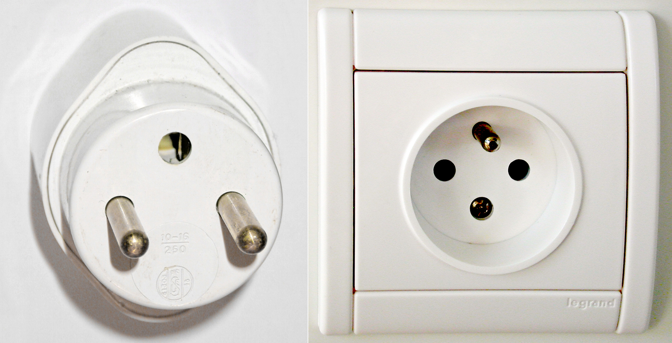 A french (Type E) power socket.